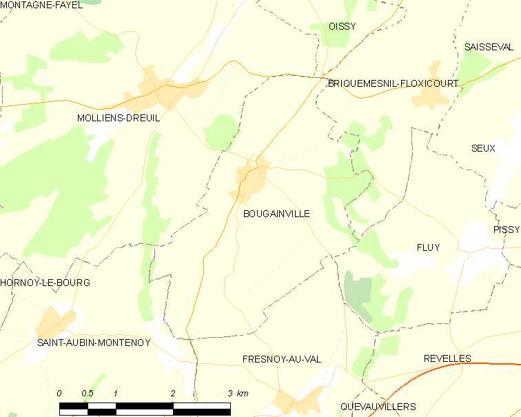 Map of French municipality Bougainville